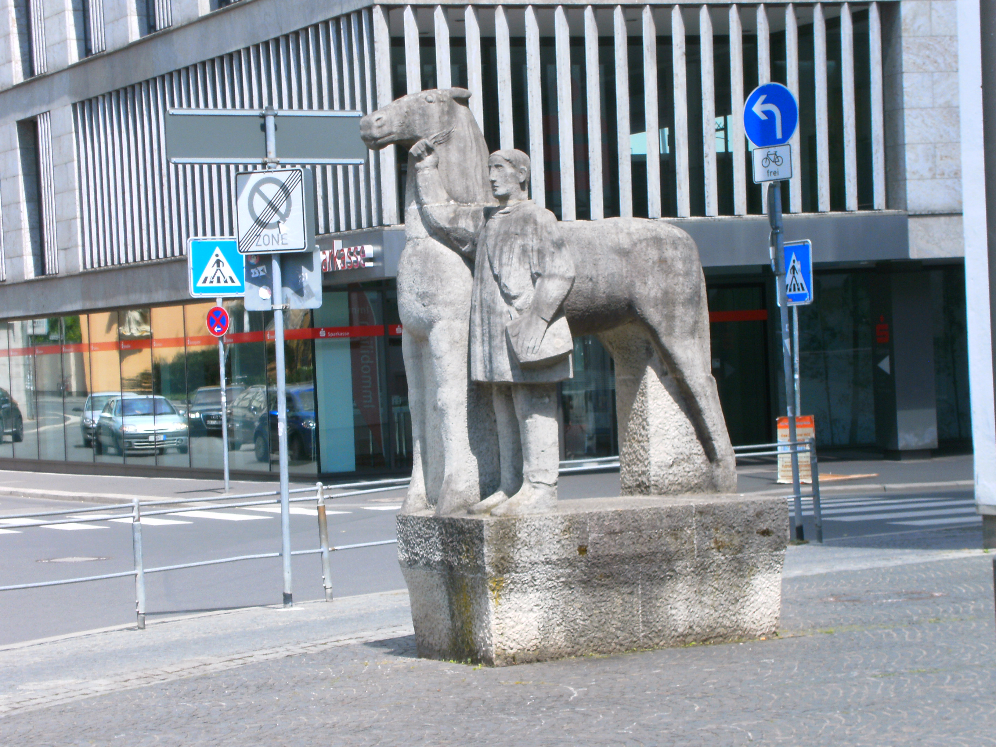 Würzburg, Germany at Paradeplatz (place): Sculpture Der Postreiter (equestrian statue, mail by horse), side by Fried Heuler.